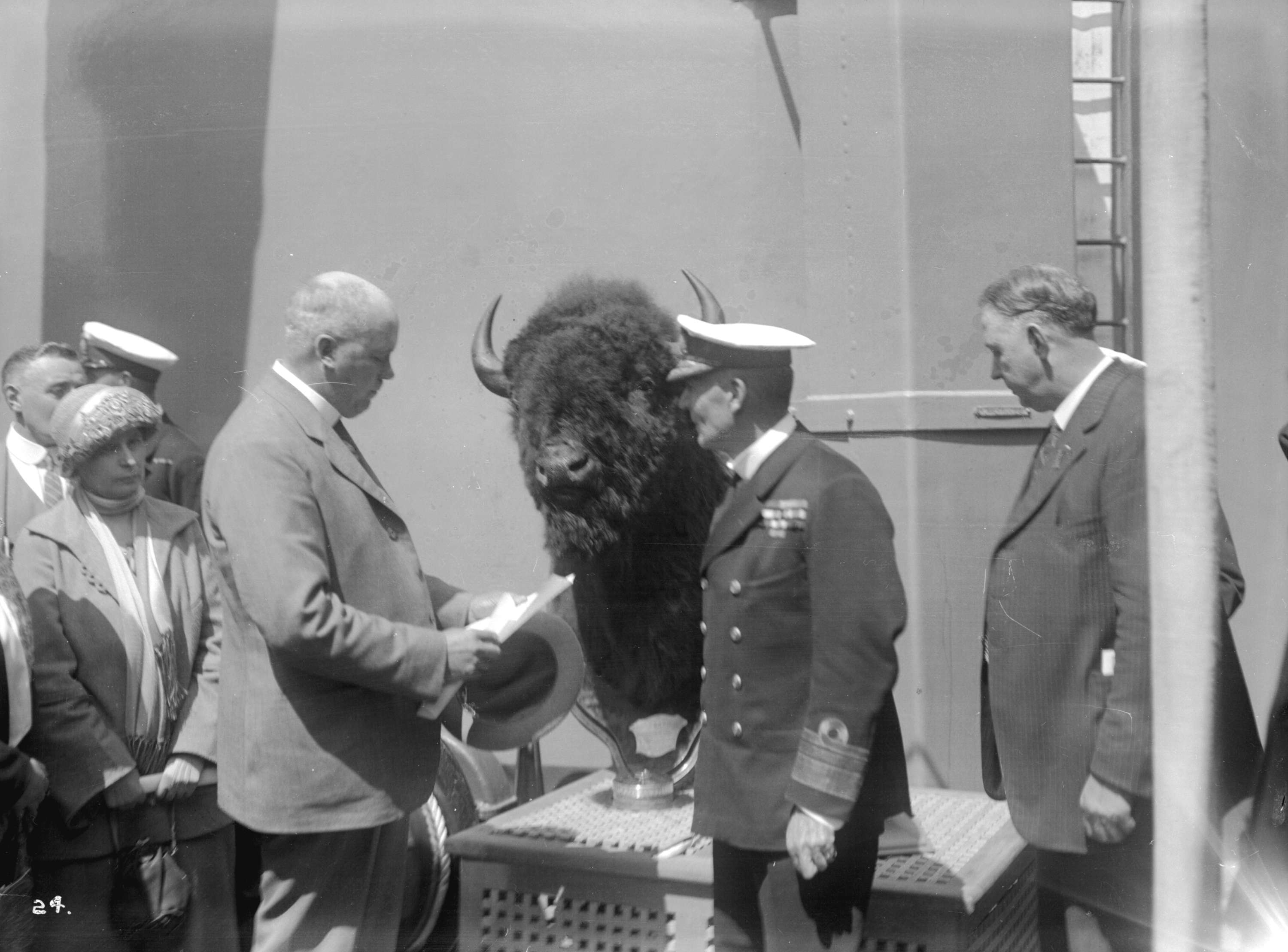 H.M.S. "Hood" visit to Vancouver. Mayor Owen and Admiral Sir Frederick Field with bison's head.